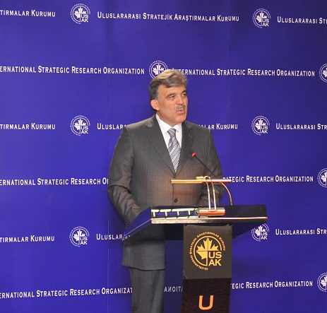 Turkish President Abdullah Gul Gives the First Lecture at the USAK, International Strategic Research Organization, Ankara-based Turkish think tank